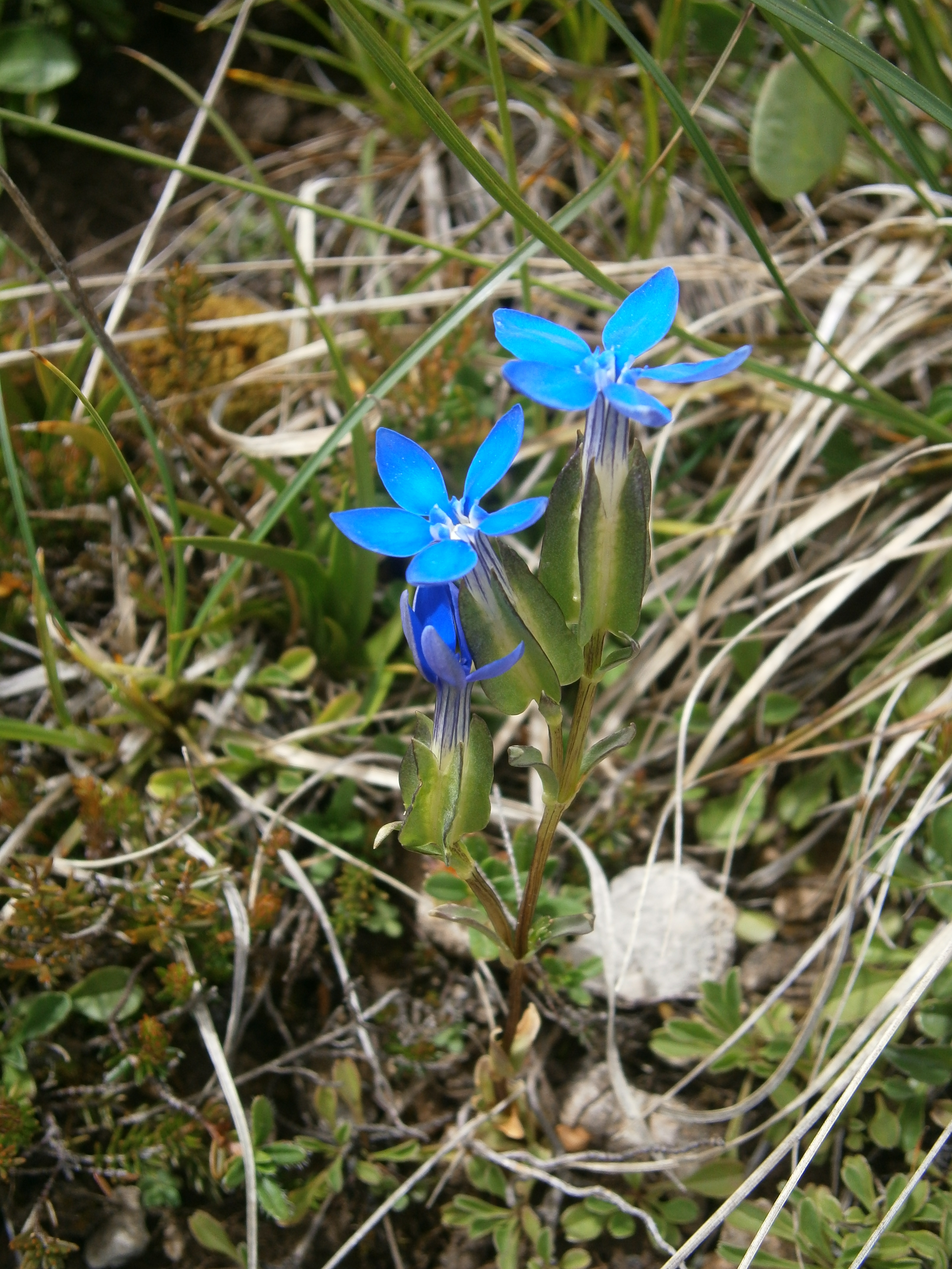 Gentiana utriculosa